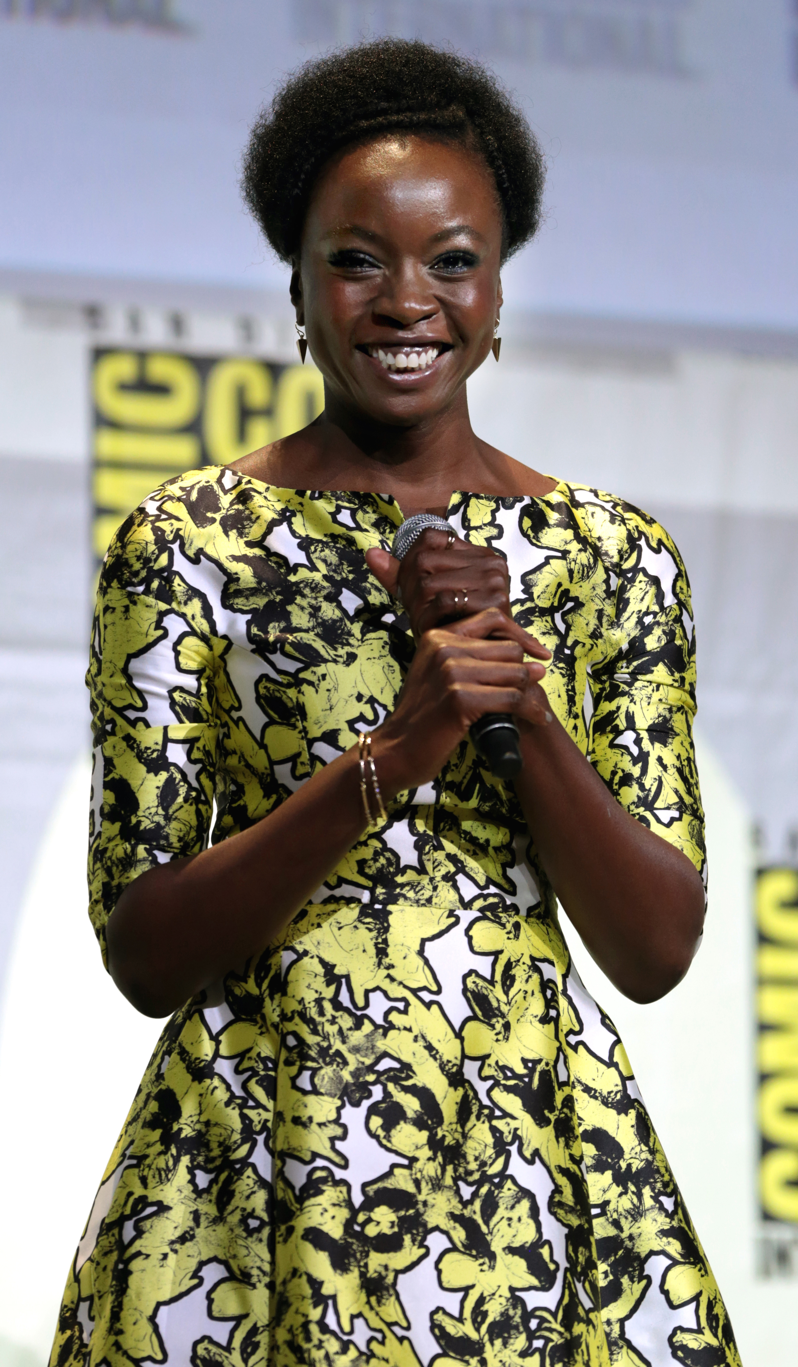 Danai Gurira speaking at the 2016 San Diego Comic-Con International in San Diego, California.